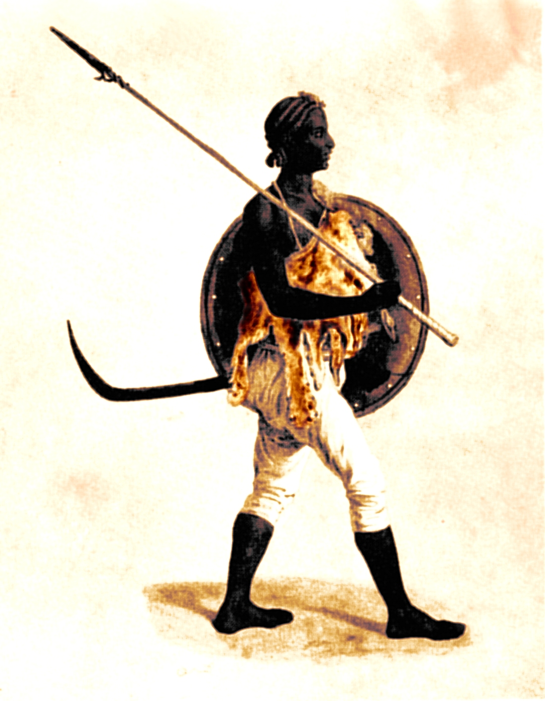 A lancer of Tigre